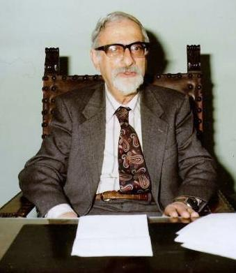 Menachem Emanuel Hertom in 1986 while rabbi of Torino, Italy.